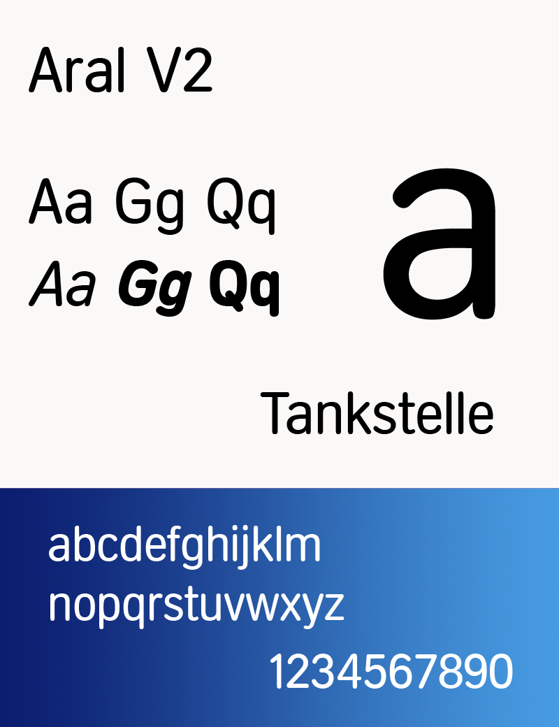 Sample of Aral V2 (typeface made for Aral in 2001)